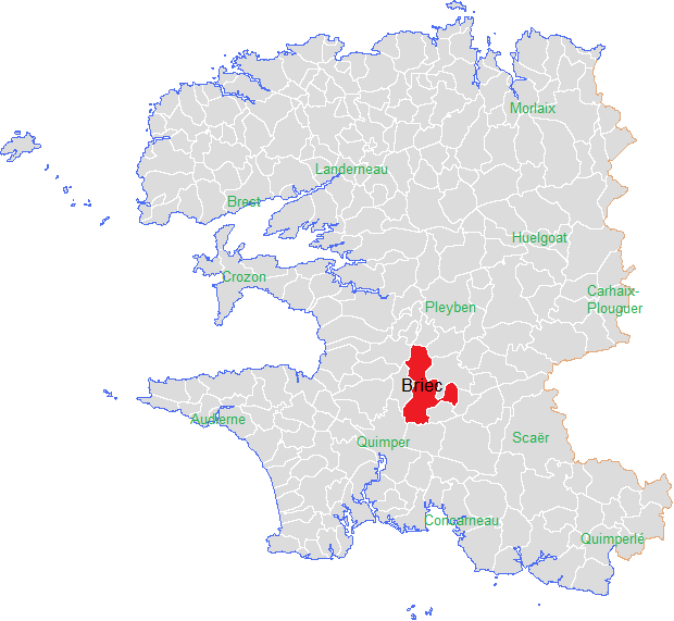 placement Briec in Finistère